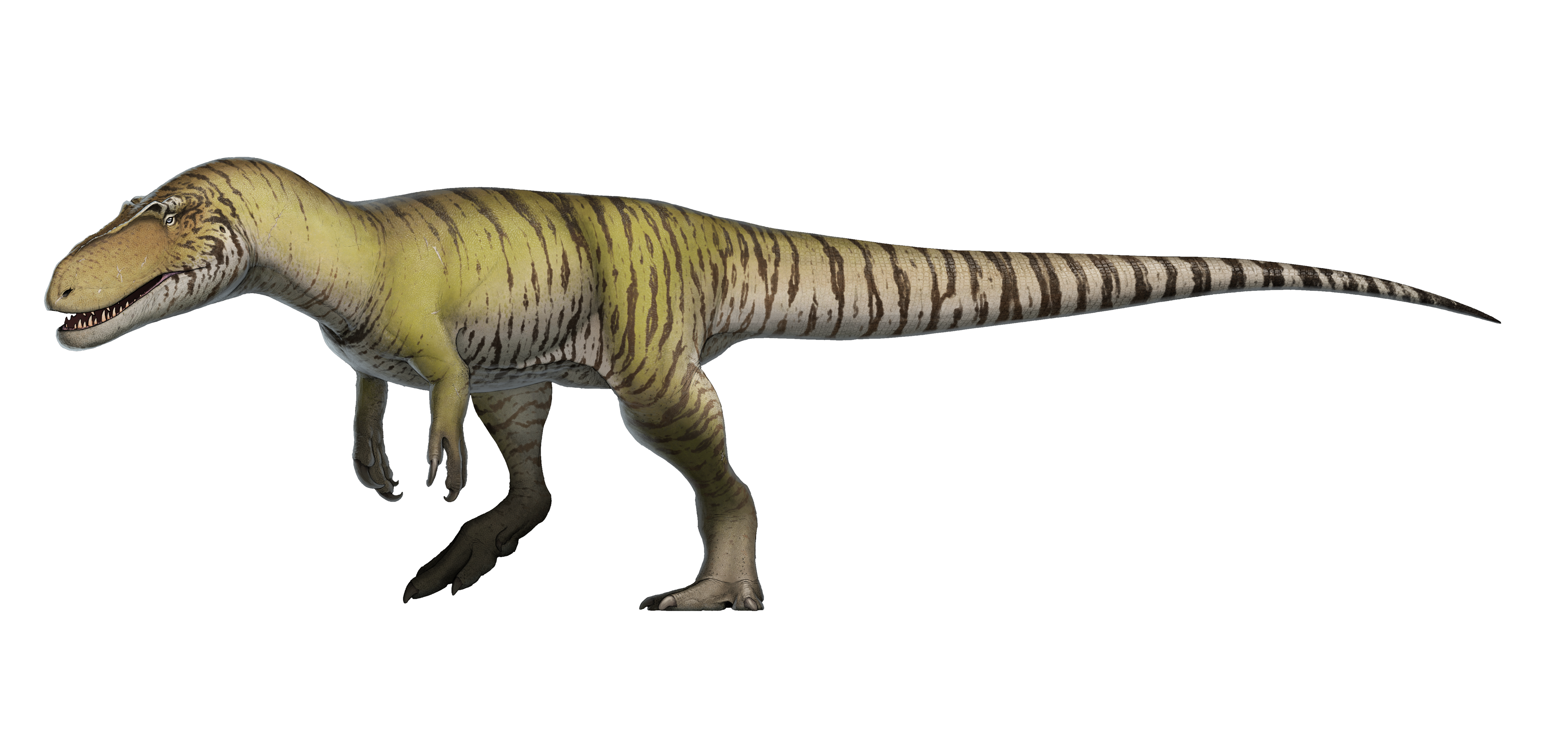 Life reconstruction of Torvosaurus tanneri. Based on Hartman.